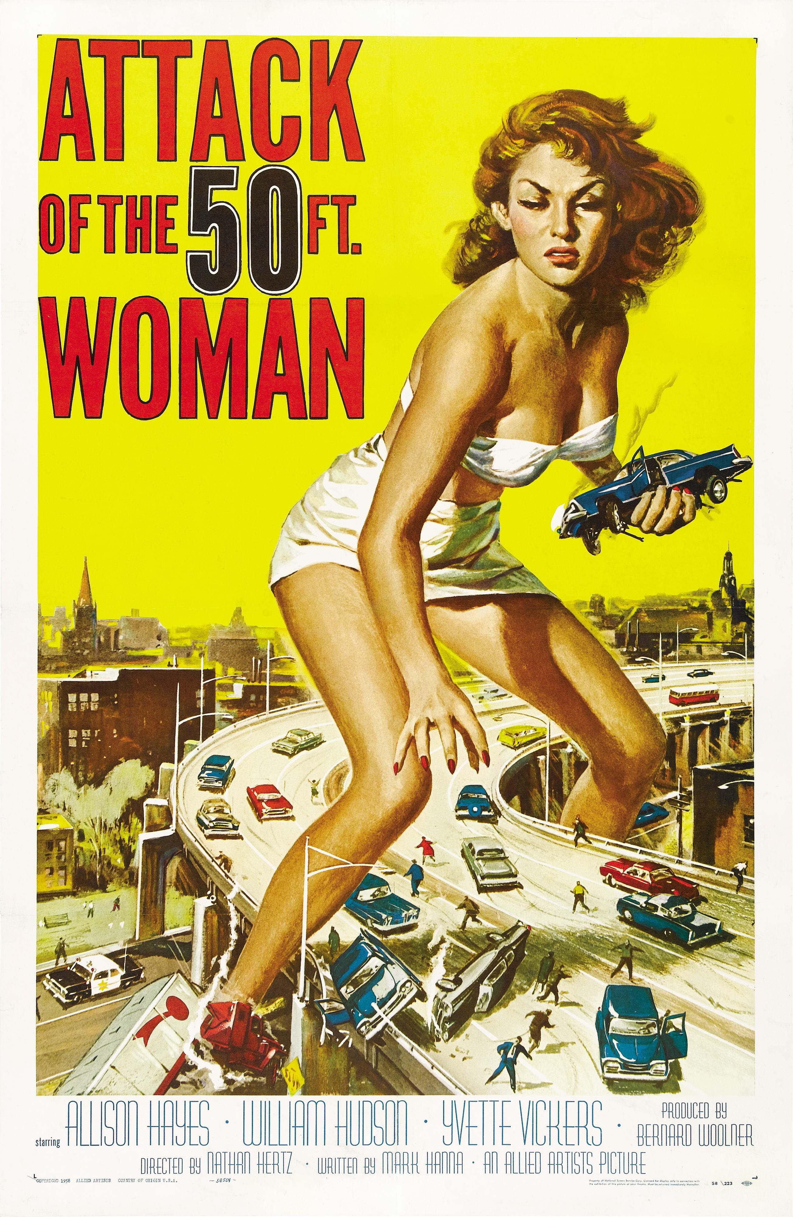 One-sheet film poster by Reynold Brown for the film Attack of the 50 Foot Woman (1958) starring Allison Hayes.